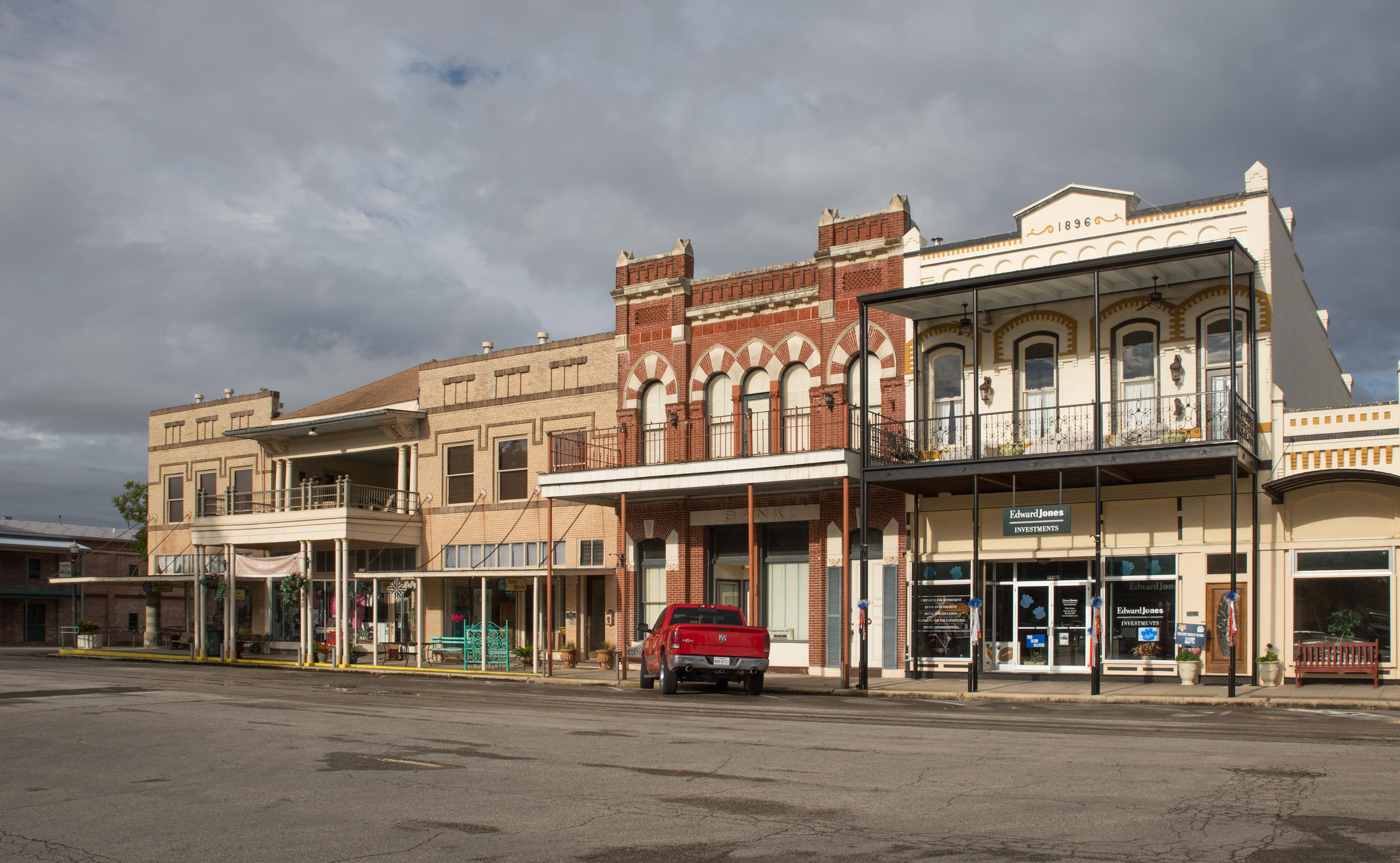 Buildings in the Goliad County Courthouse Historic District